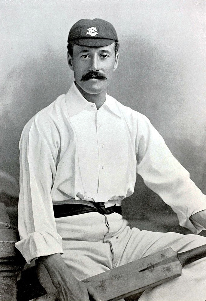 Sport, Cricket, Circa 1895, William Brockwell, Surrey (1886-1903) and England (1893-1899)